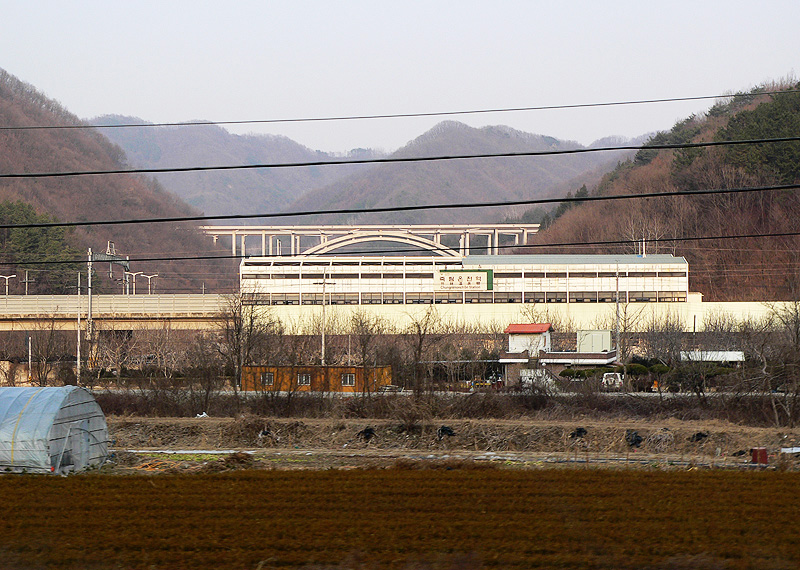 KORAIL Jeolla Line Jungnimoncheon Station